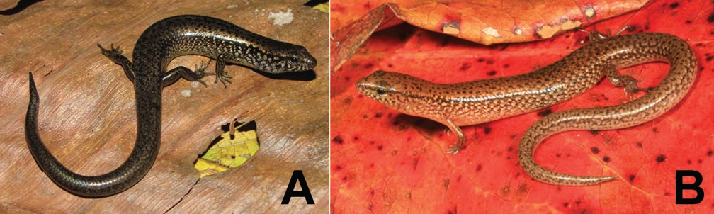 Individuals of two presumed undescribed species of Eremiascincus. A Eremiascincus sp. 1 (USNM [CMD 365], SVL 66 mm, TL 185 mm) from Maubisse, Ainaro District B Eremiascincus sp. 2 (USNM [CMD 474], SVL 51 mm, TL 101 mm) from Loré 1 village, Lautém District.